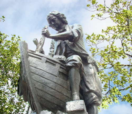 Peter I of Russia statue in Zaandam, Netherlands